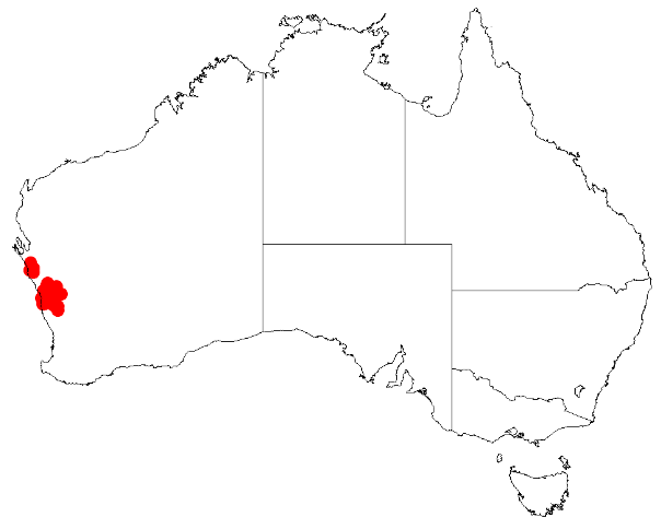 Acacia cavealis Occurrence data from Australasia Virtual Herbarium downloaded from on 8 December 2018